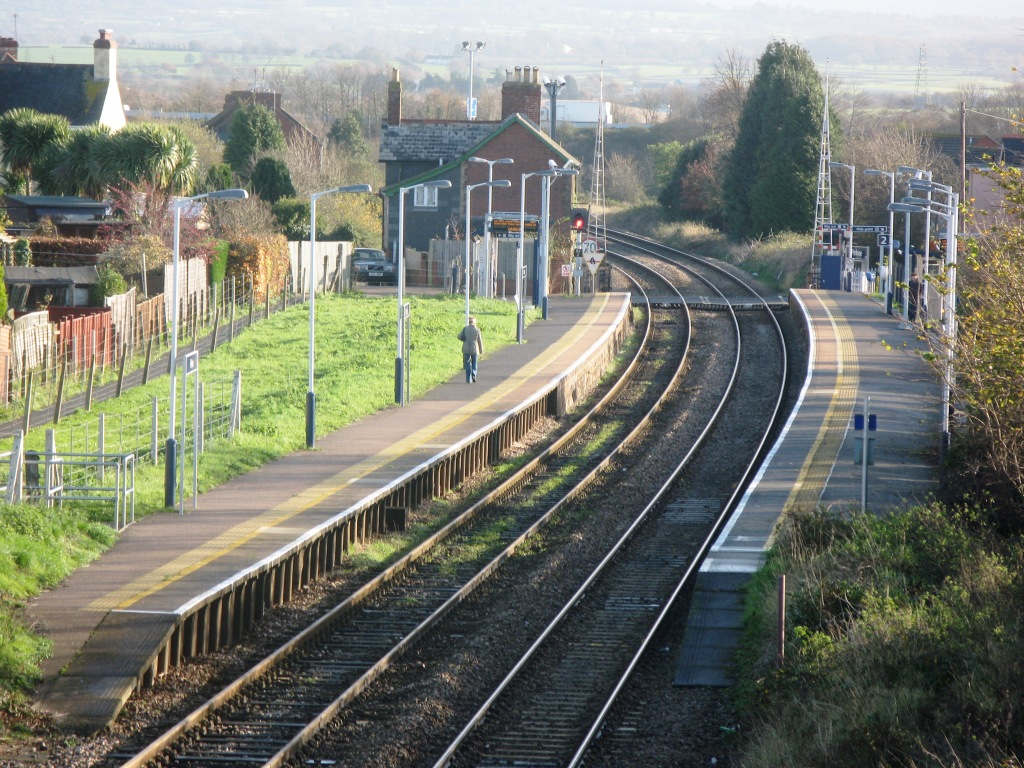 Pinhoe station, Devon, viewed looking eastwards towards London.